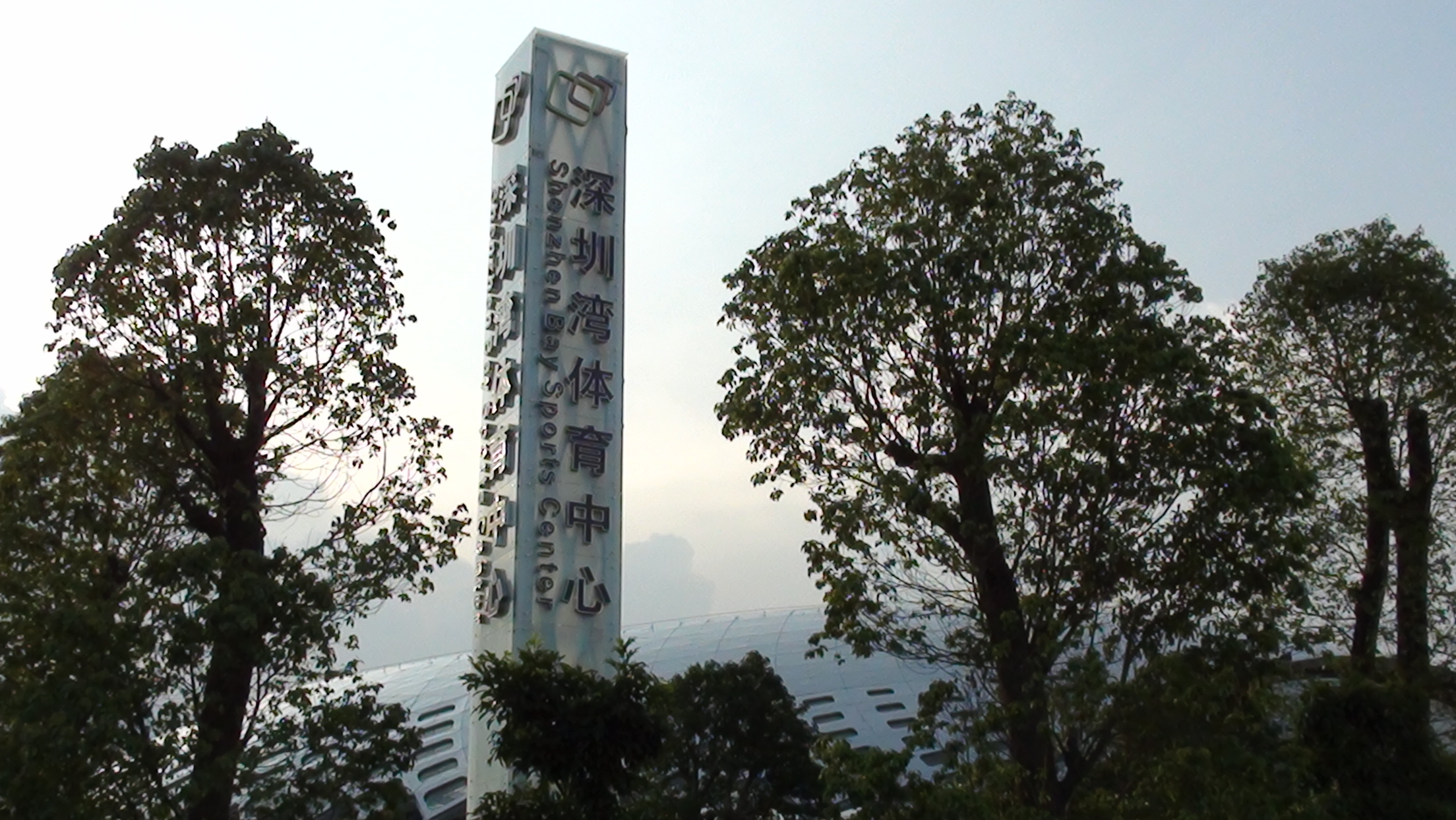 Shenzhen Bay Sports Center01